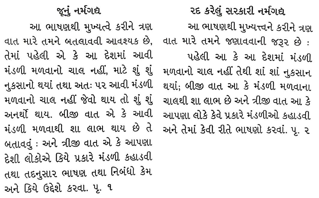 Difference betwwen Old Narma Gadya and rejected government Narma Gadya